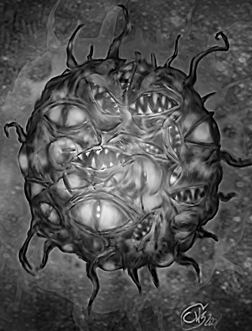 b/w illustration of a shoggoth.